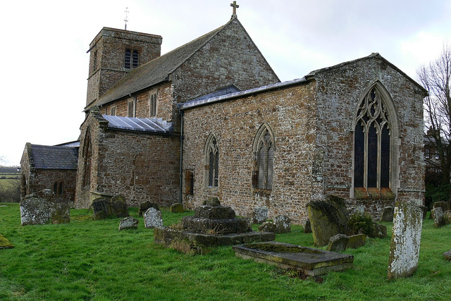 St. John the Baptist. Upper Boddington, Northamptonshire. Built of Limestone and Shale and dates from the C13 and C14